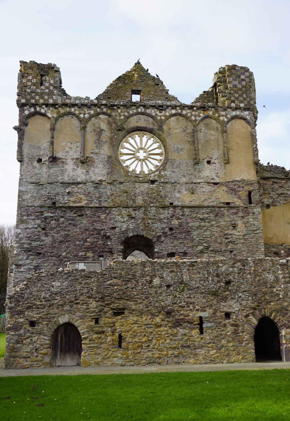 St. Davids Bishop's Palace, St. Davids, Wales, United Kingdom. Great Hall exterior, seen from the east.